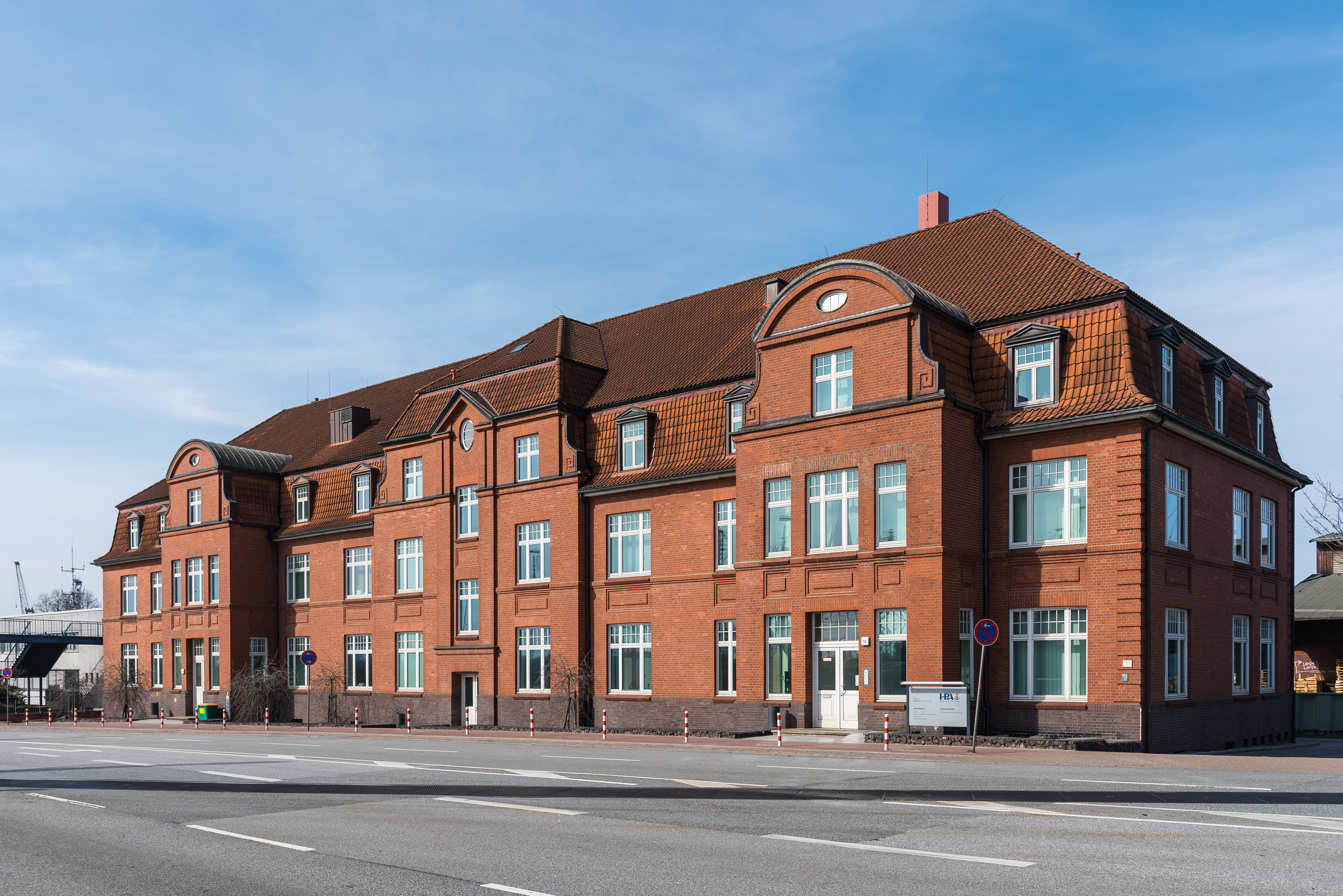 Administrative building of the Hamburg port railroad next to the Hamburg-Süd station on Veddeler Damm 14 in the Kleiner Grasbrook district of Hamburg. It houses several departments of the railroad administration as well as other parts of the Hamburg Port Authority to which the railroad belongs. The building, a former office of the customs authorities, was built around 1925 and is a registered cultural heritage monument. This is a photograph of an architectural monument.